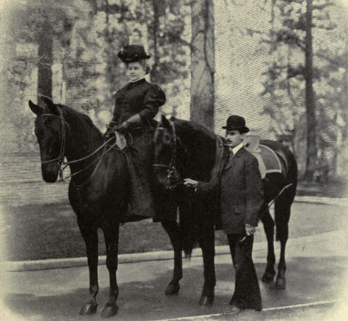 Dell and Robert Strahorn, date unknown Other information